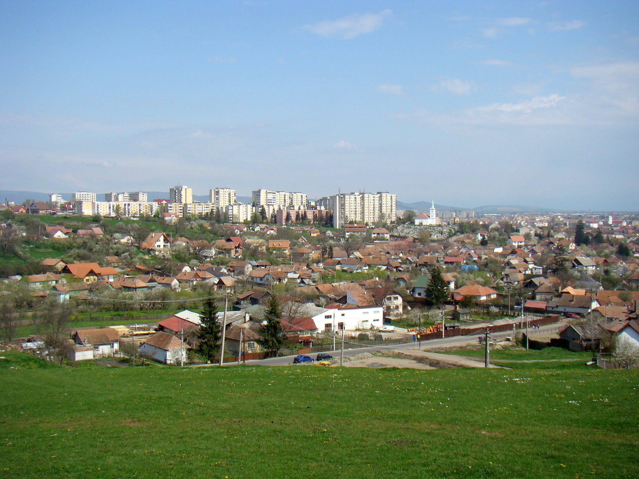 Sfantu Gheorghe town, Covasna county, Romania